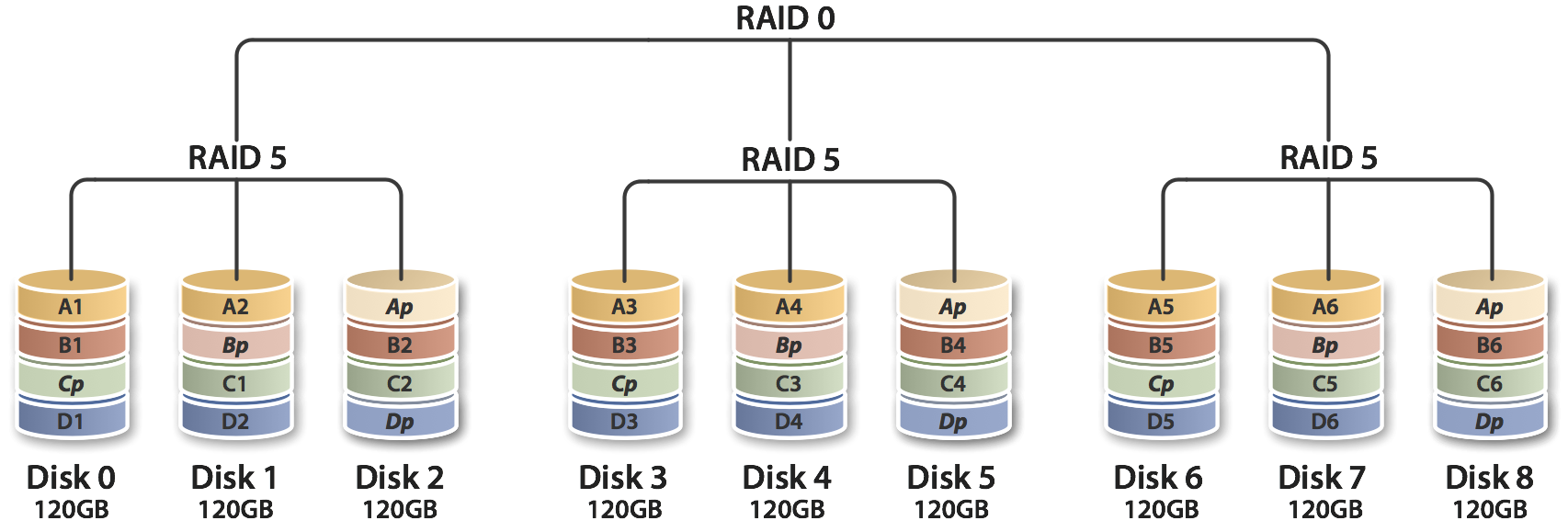 Diagram of a representative RAID-50 configuration